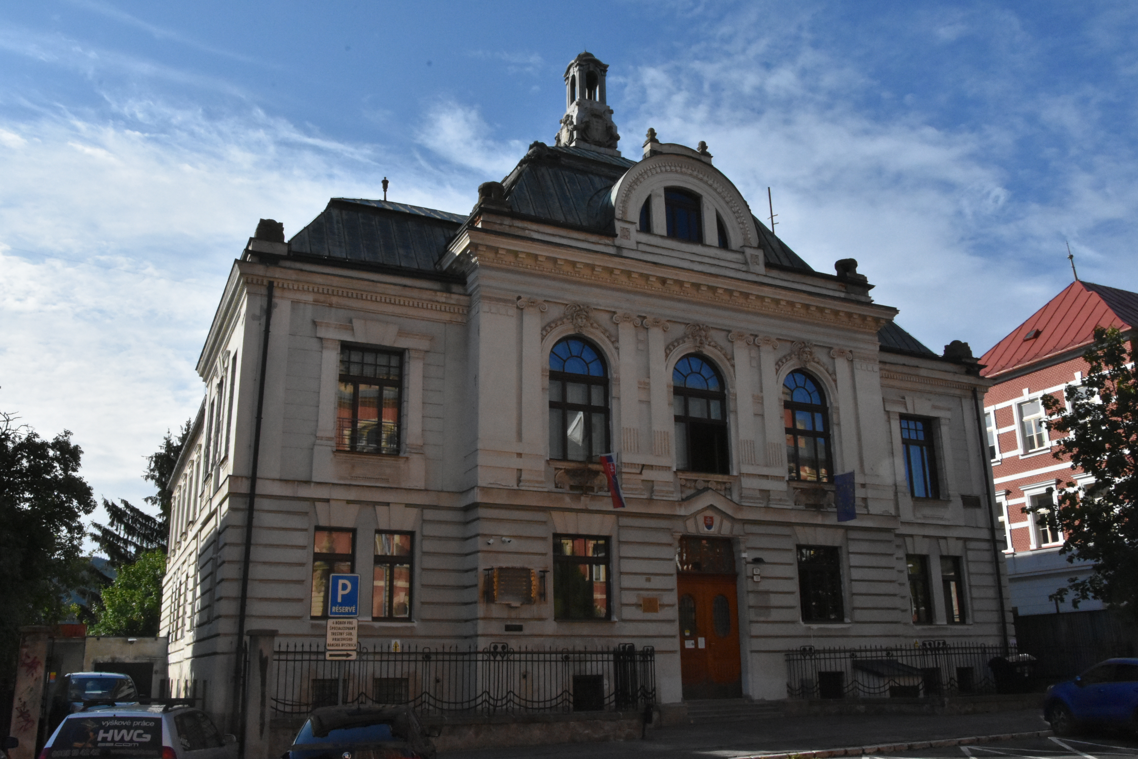 Specialized criminal court, branch in Banská Bystrica. It is situated on Skuteckého no 10, Banská Bystrica, Slovakia. Picture from July 2020.